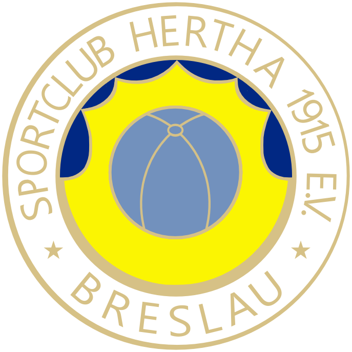 Historical logo of SC Hertha Breslau.